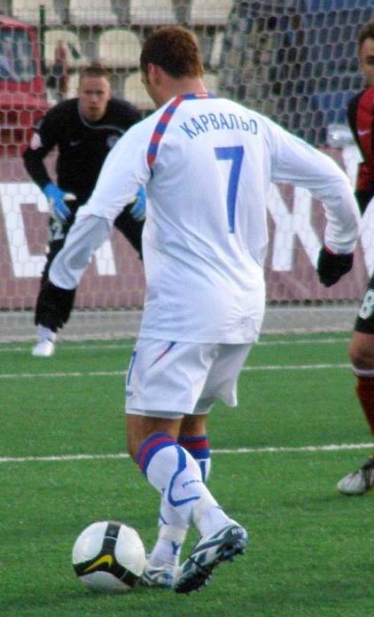 Daniel Carvalho in action for PFC CSKA Moscow